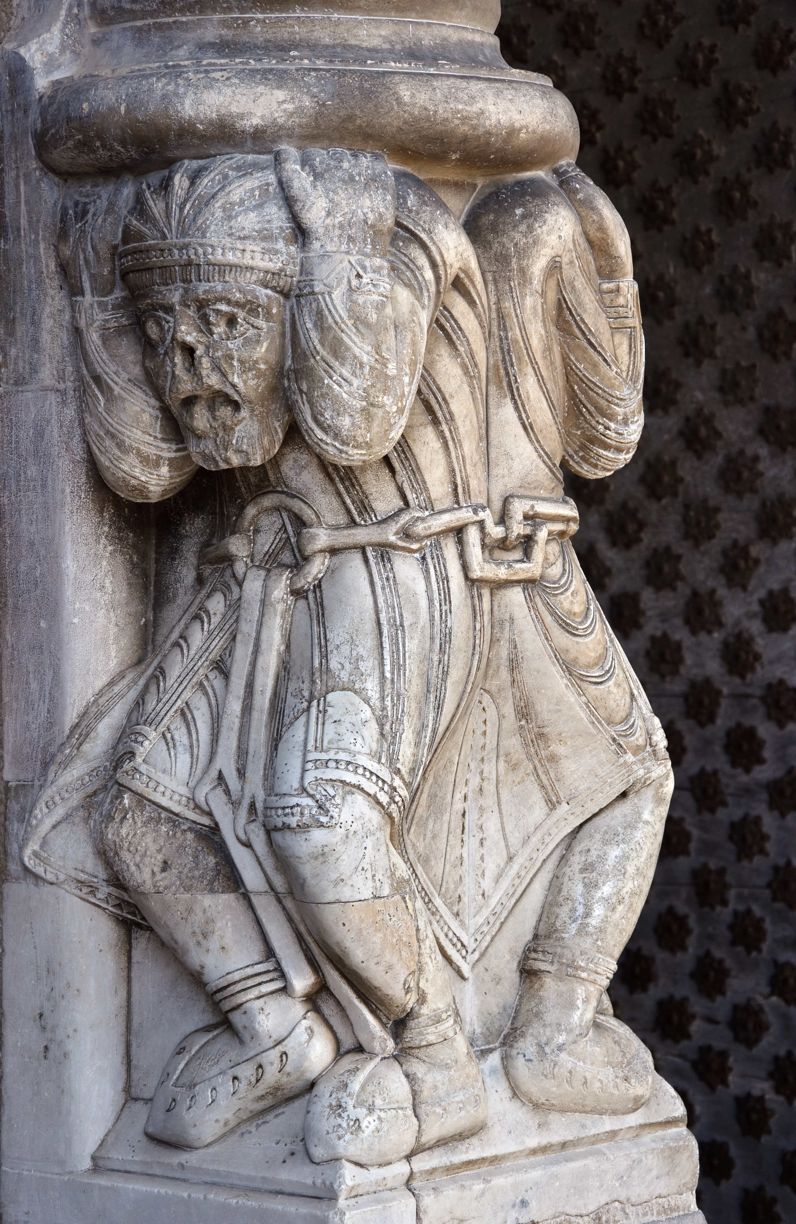 Atlantes in chains, pier of the west portal of Oloron Cathedral ('Cathédrale Sainte-Marie d'Oloron'), Oloron-Sainte-Marie, Pyrénées-Atlantiques, France.